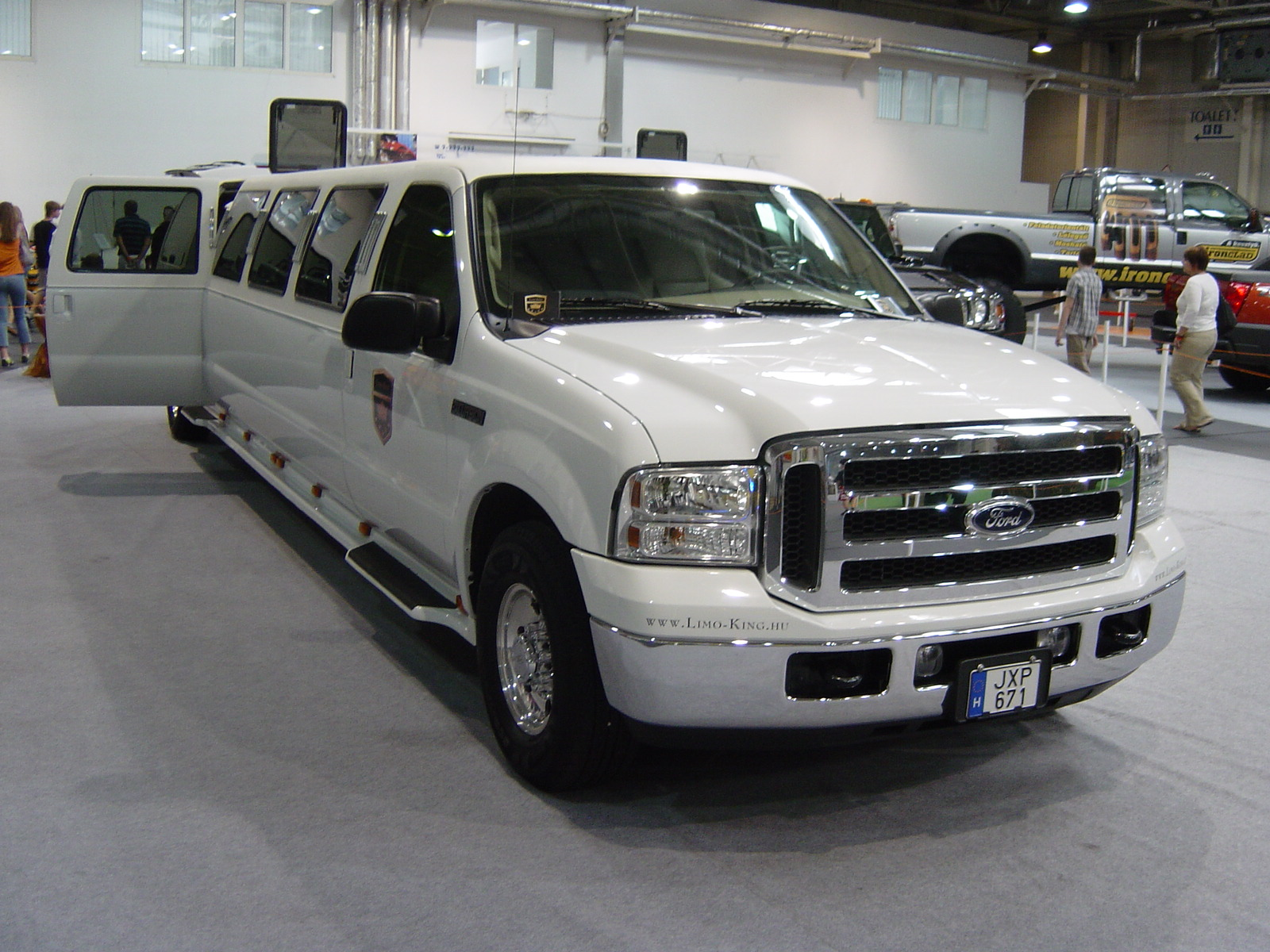 Rod and Custom Show